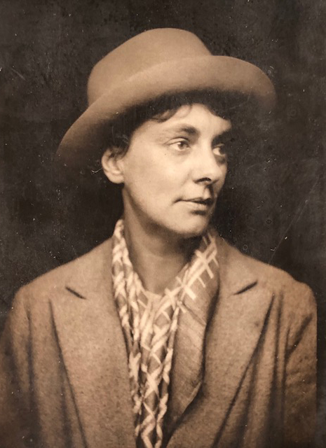 Photograph of Doris Hatt c.1930